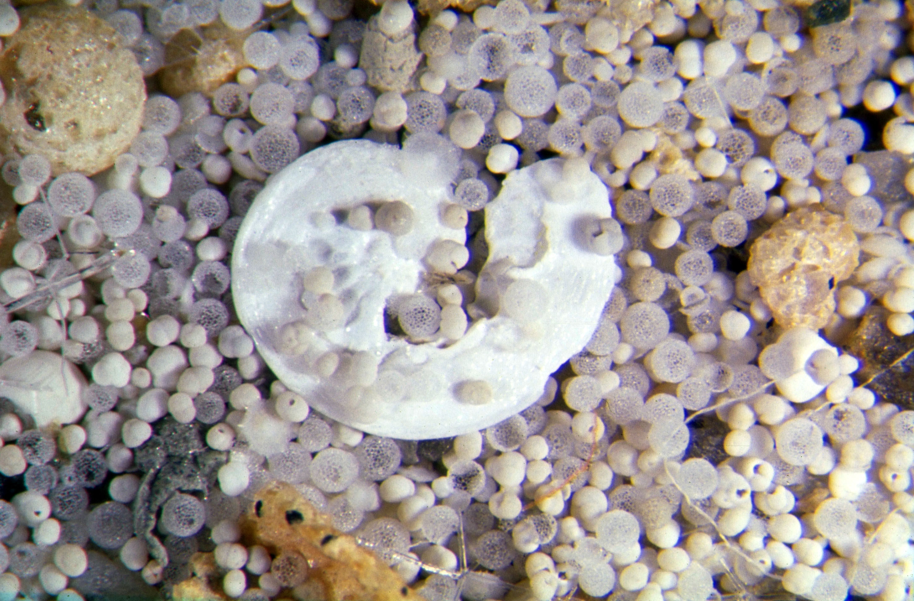 Mikrofossils from marine sediments consisting of radiolaria (spheres), sponge spicules (needles), planktic foraminifera (small white shells) and benthic foraminifera (large white shell in the middle and yellowish shells build from sand grains); mean diameter of spheres 0.5 mm. Sample separated from bulk sediment by washing through a 125 µm sieve. Sediment is from the Antarctic continental margin, Eastern Weddell Sea.